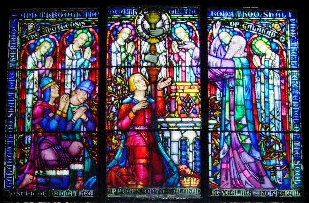 A detail from the left stained-glass window in the lobby of the Bayard Rustin Educational Complex (BREC).